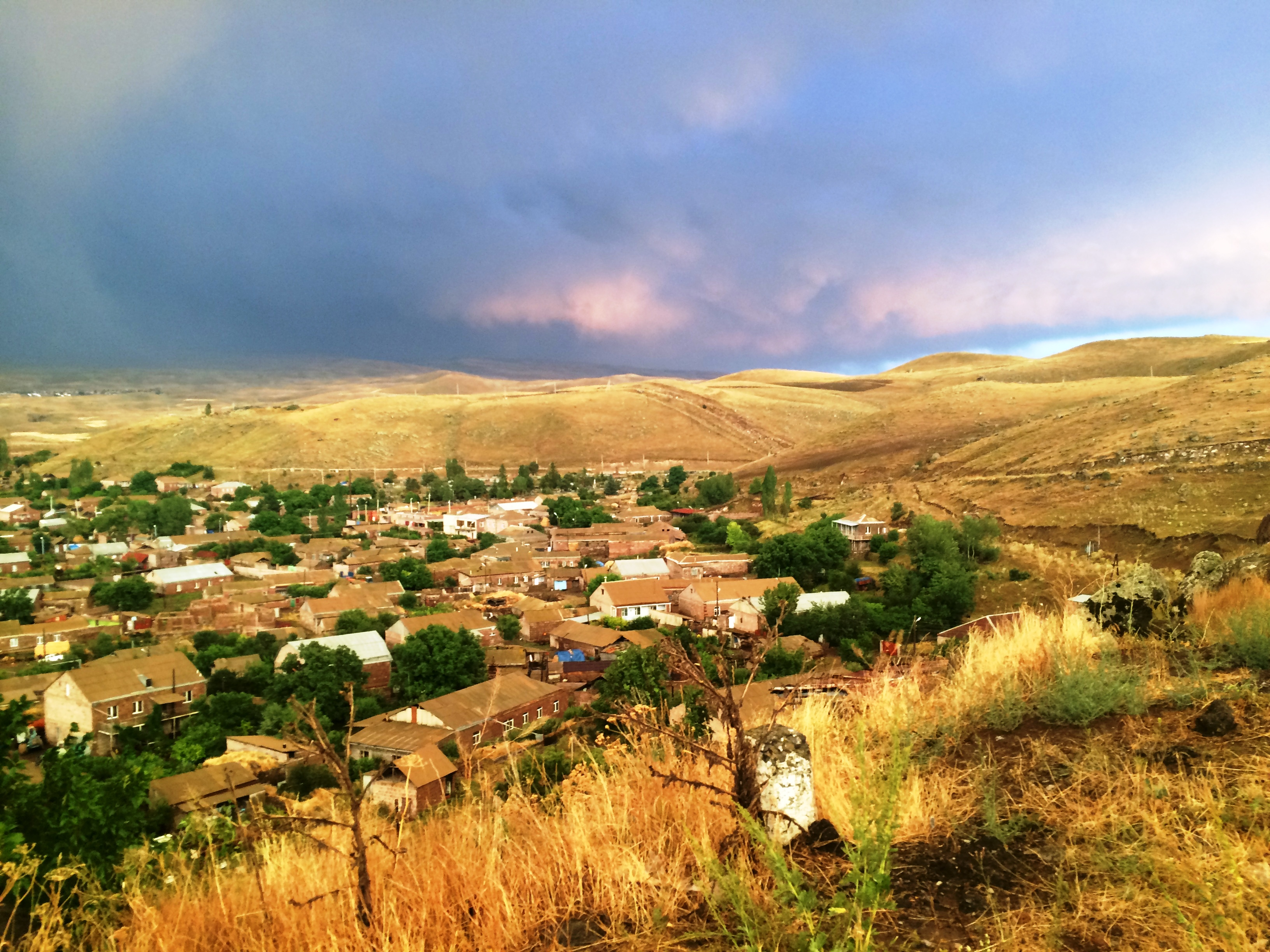 Town of Maralik, Shirak marz, Armenia.